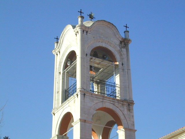 Bell tower of Saint Athanasios church in Doxato, Drama, Greece